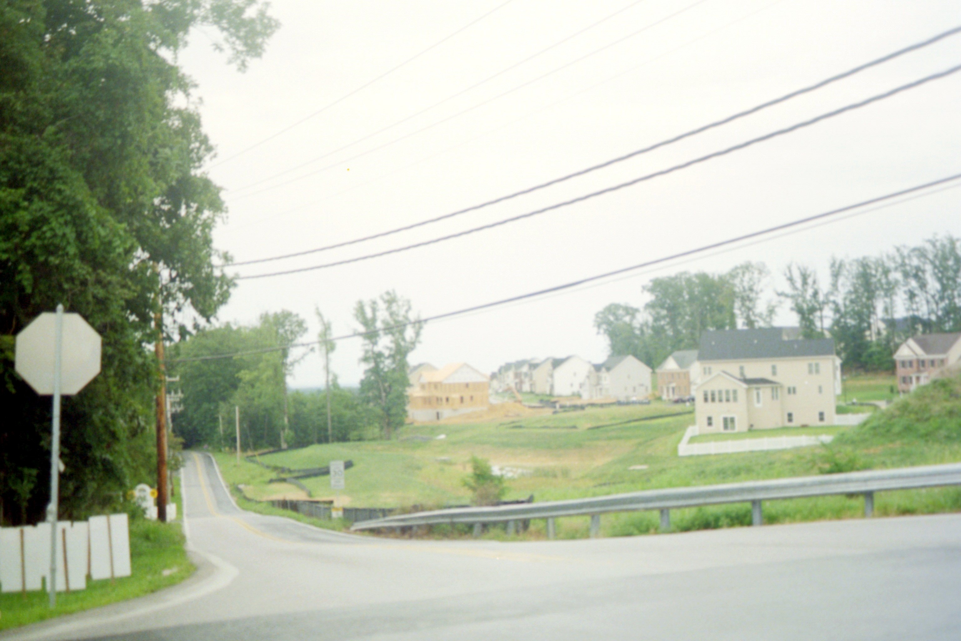 Intersection of Landing Road and Ilchester Road